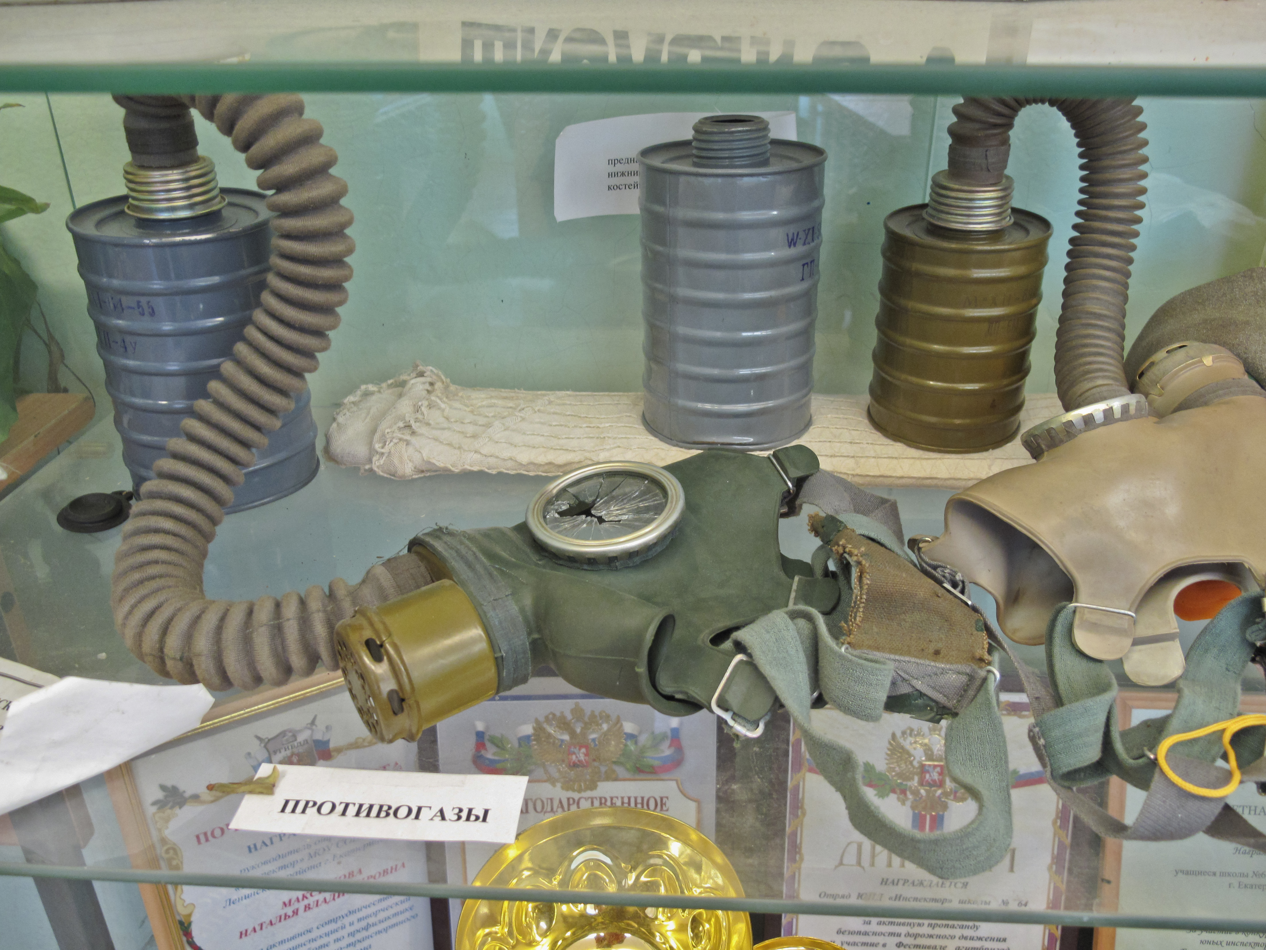 Gas masks GP-4u and DP-6M on display in a school in Yekaterinburg